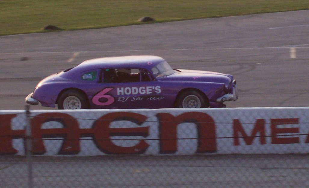 This is an image was taken July 6, 2006 by myself. I cropped the image with Fireworks MX. The image shows the #6 street stock racecar of Coley Klockzien from Wisconsin International Raceway. The car body was built to resemble a Hudson according to the track announcers. Exact year unknown. Car manufacturer's generally bend sheet metal to resemble whatever the car owner wishes.